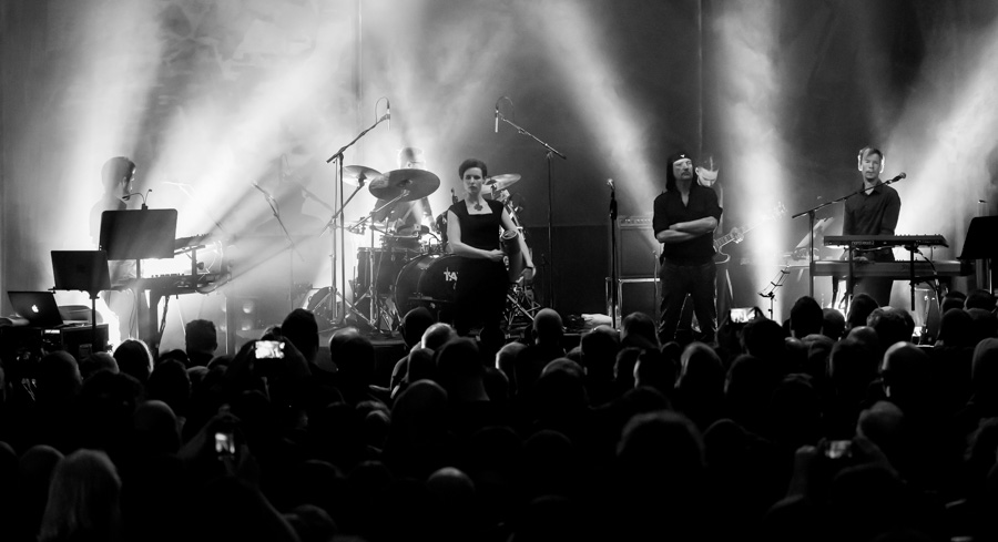 Laibach at Vulkan Arena, Oslo, November 10th 2017